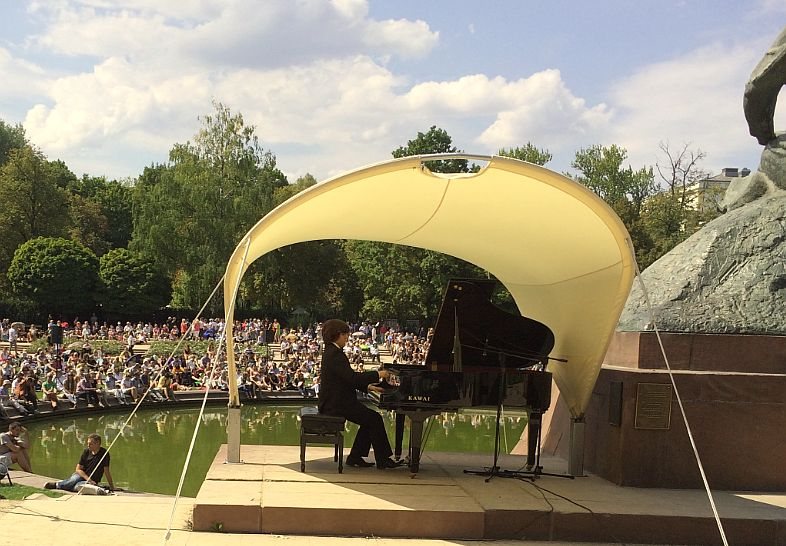 AdamGoździewski at Łazienki